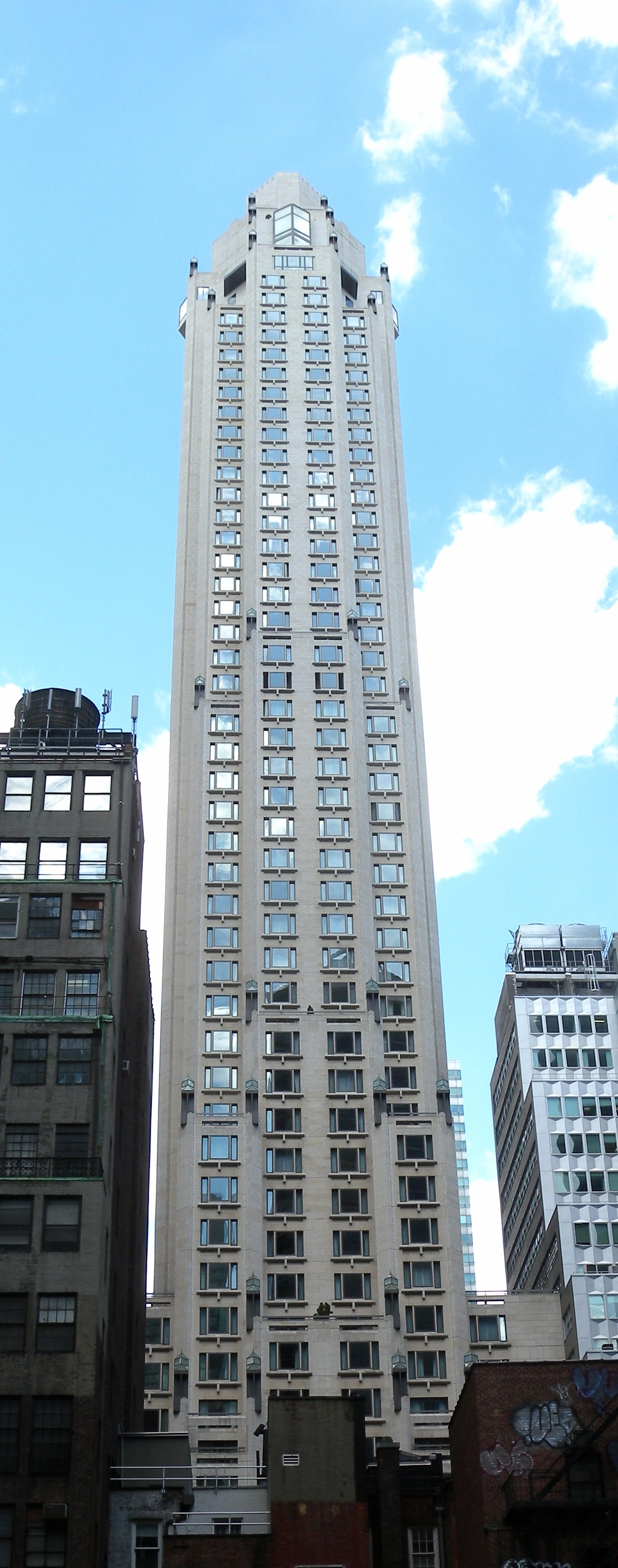 Looking north from 56th St across a vacant lot at Four Seasons Hotel New York.